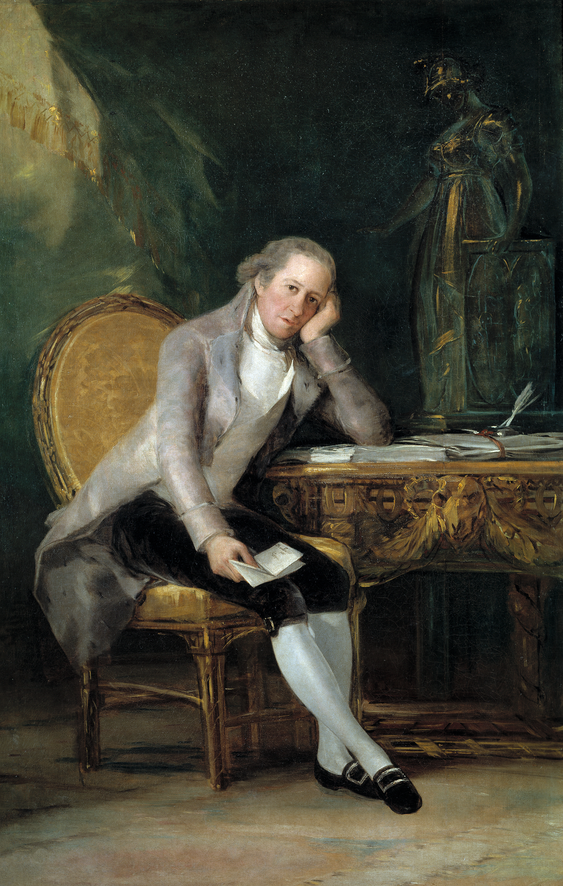 Portrait of Gaspar Melchor de Jovellanos at his desk